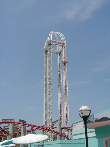 Subject: Power Tower at Cedar Point in Sandusky, Ohio Author: Nick Nolte Taken: November 4, 2001